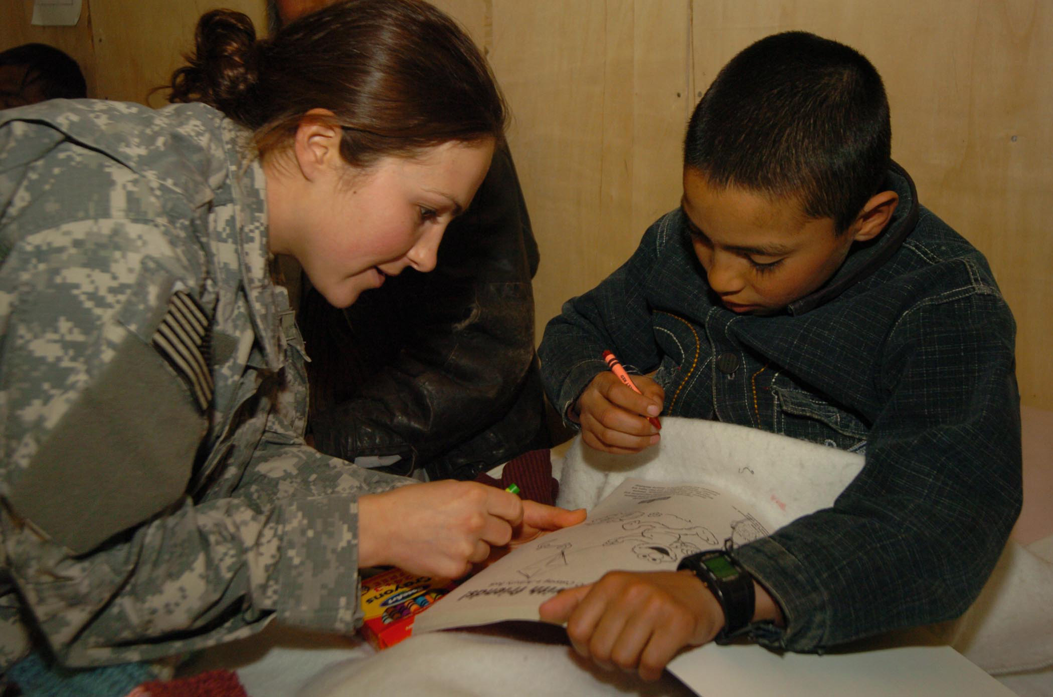 Army Sgt. Heather Slater shows an Afghan boy at how use crayons and a coloring book Feb. 25 at the Egyptian Hospital near Bagram Airfield. (U.S. Air Force photo by Sr. Airman James Bolinger).